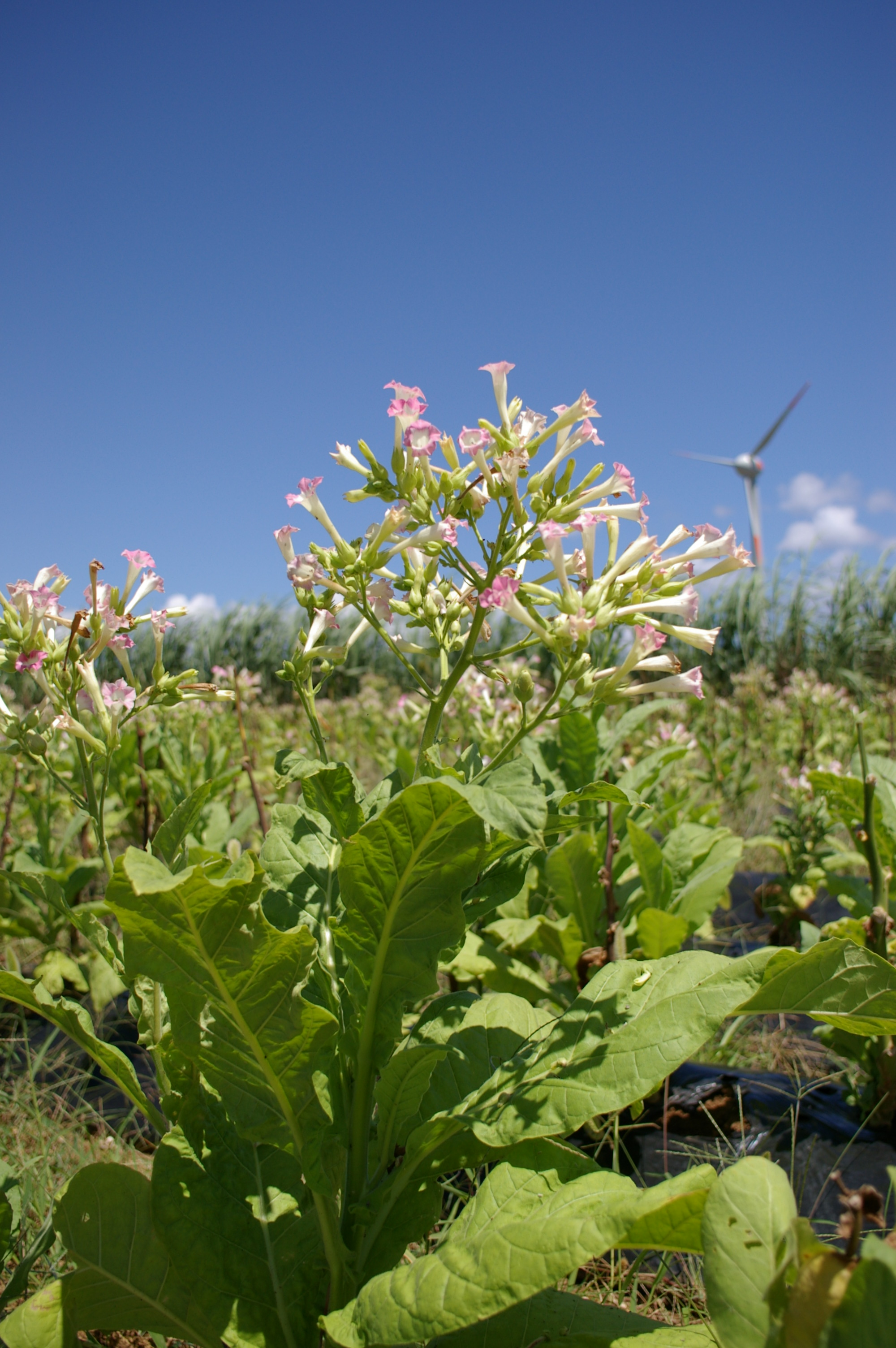 Tobacco Flower